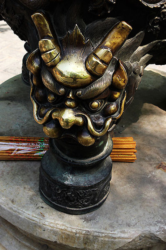 White Cloud Temple, Beijing